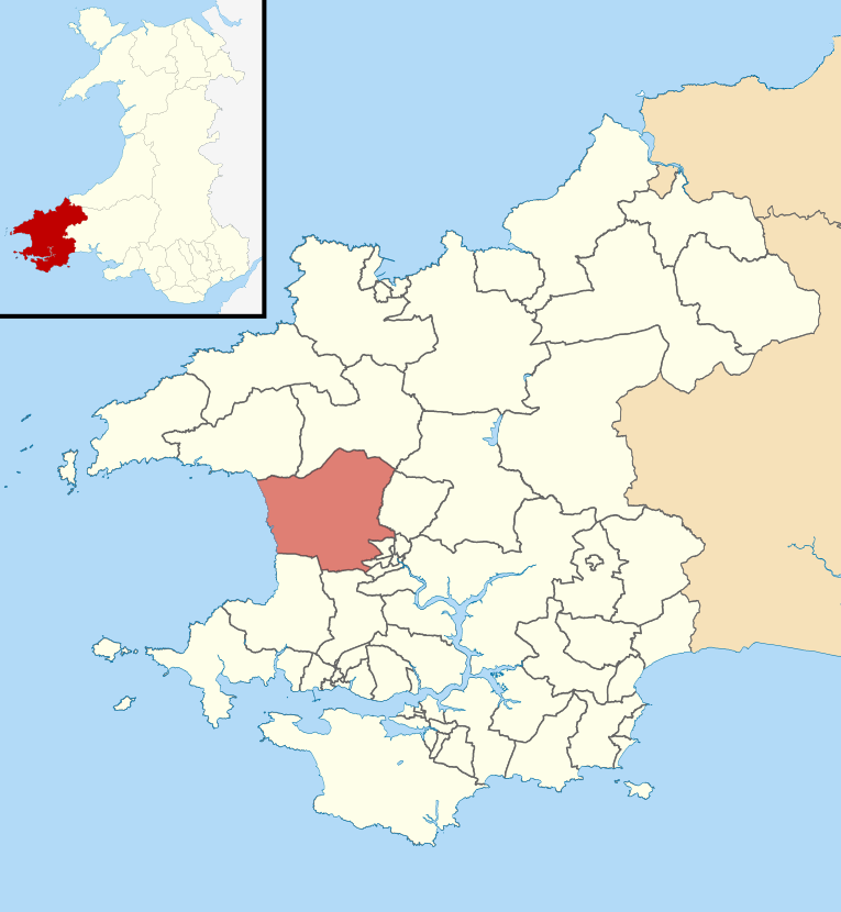 Location map of Camrose electoral ward in Pembrokeshire, Wales, which covers the communities of Nolton and Roch, and Camrose